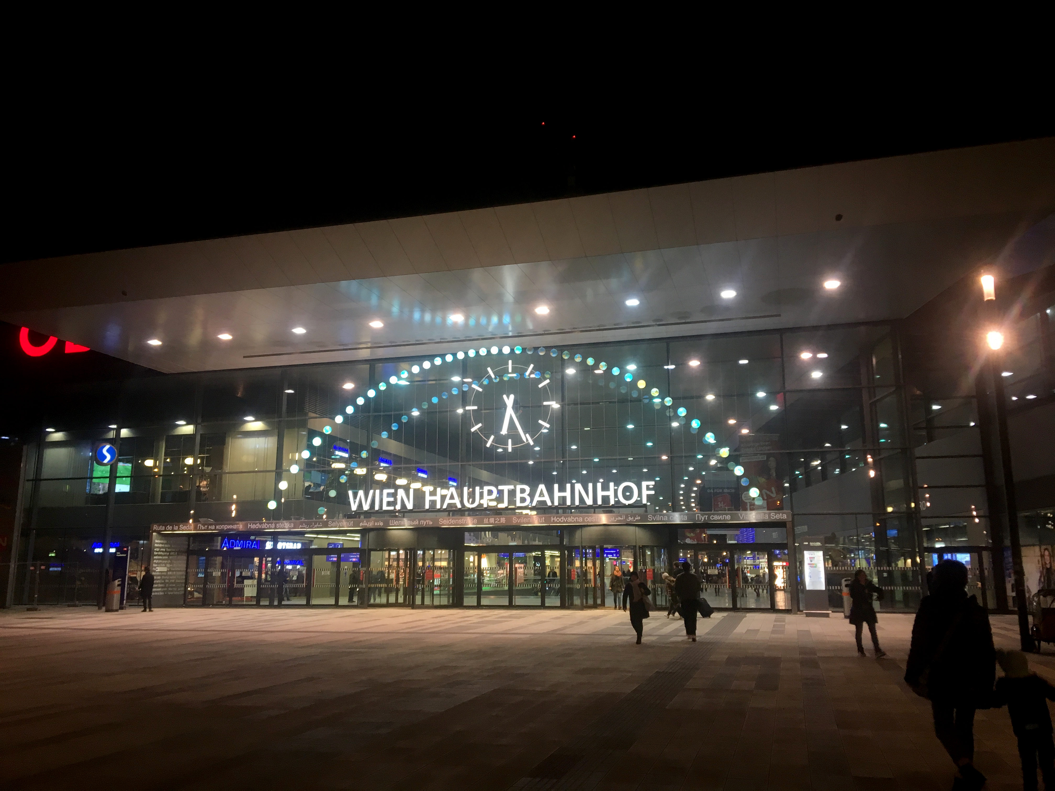 Central Station Vienna, Main-Entry by Night, taken in January 2018